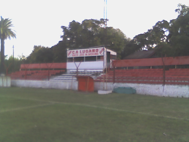 Sector of Silverplates of Club Atletico Lugano